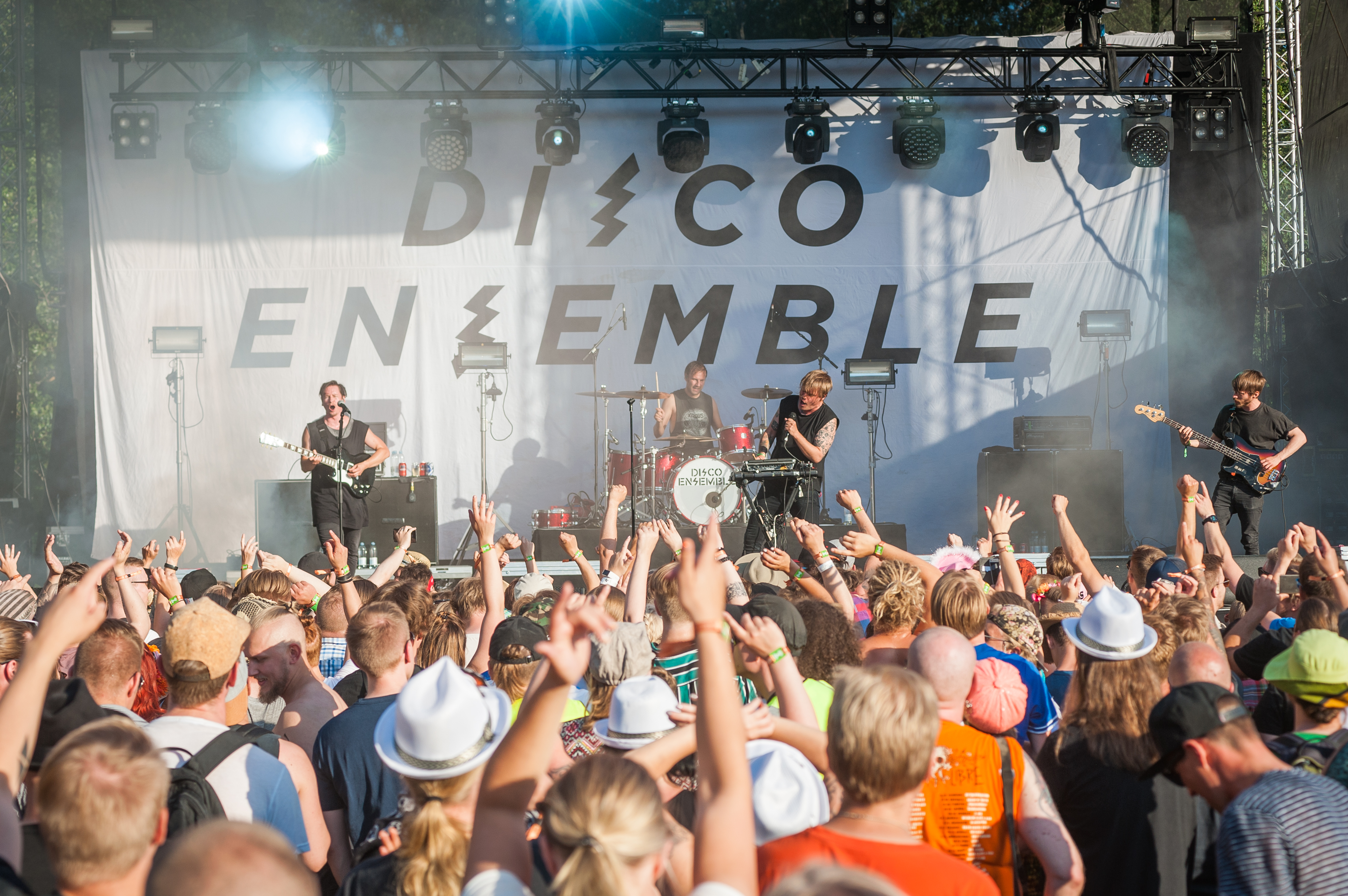 Finnish alternative rock band Disco Ensemble performing at the 2018 Ilosaarirock festival in Joensuu, Finland